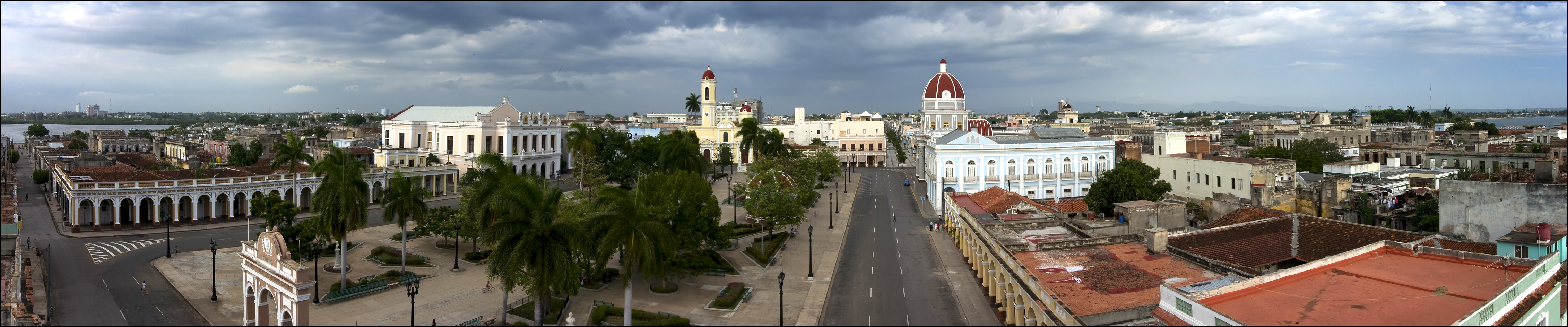 The view from the tower to Jose Marti square